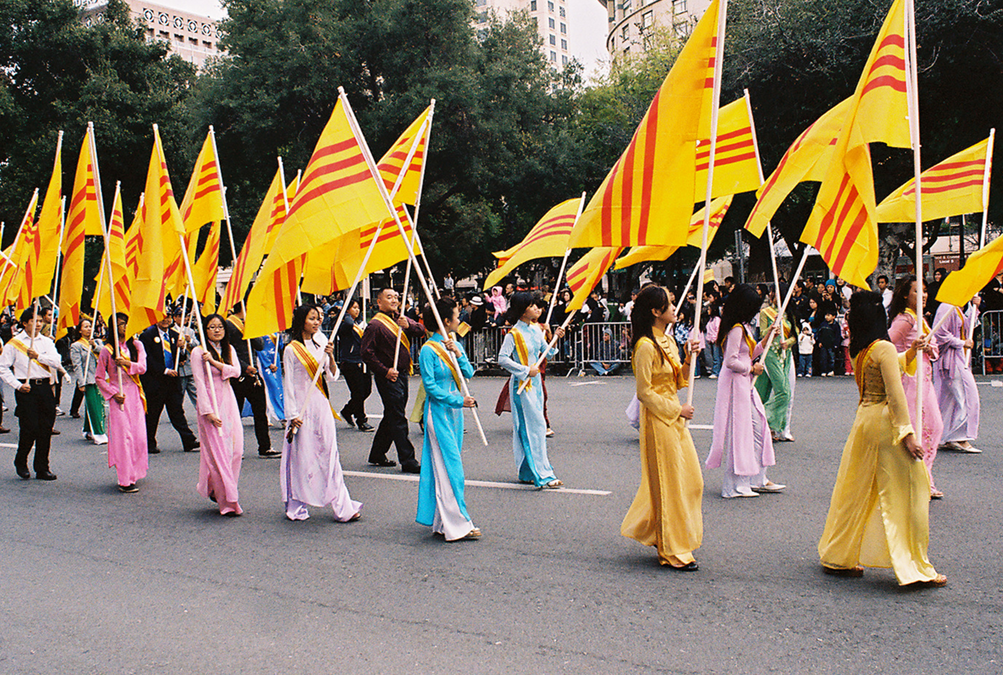 Vietnamese New Year parade, San Jose, California. Nikon F100, Kodak Portra 400VC. Nikon F100, 24mm f2.8 AF-D Nikkor, Portra 400VC. Heavily cropped.